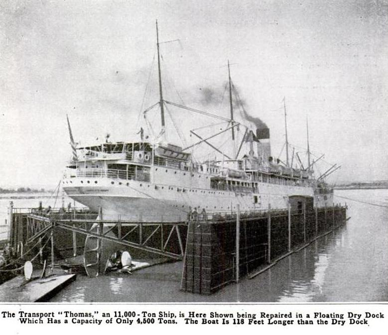 USS Thomas in dry dock circa 1916 to repair a broken propeller